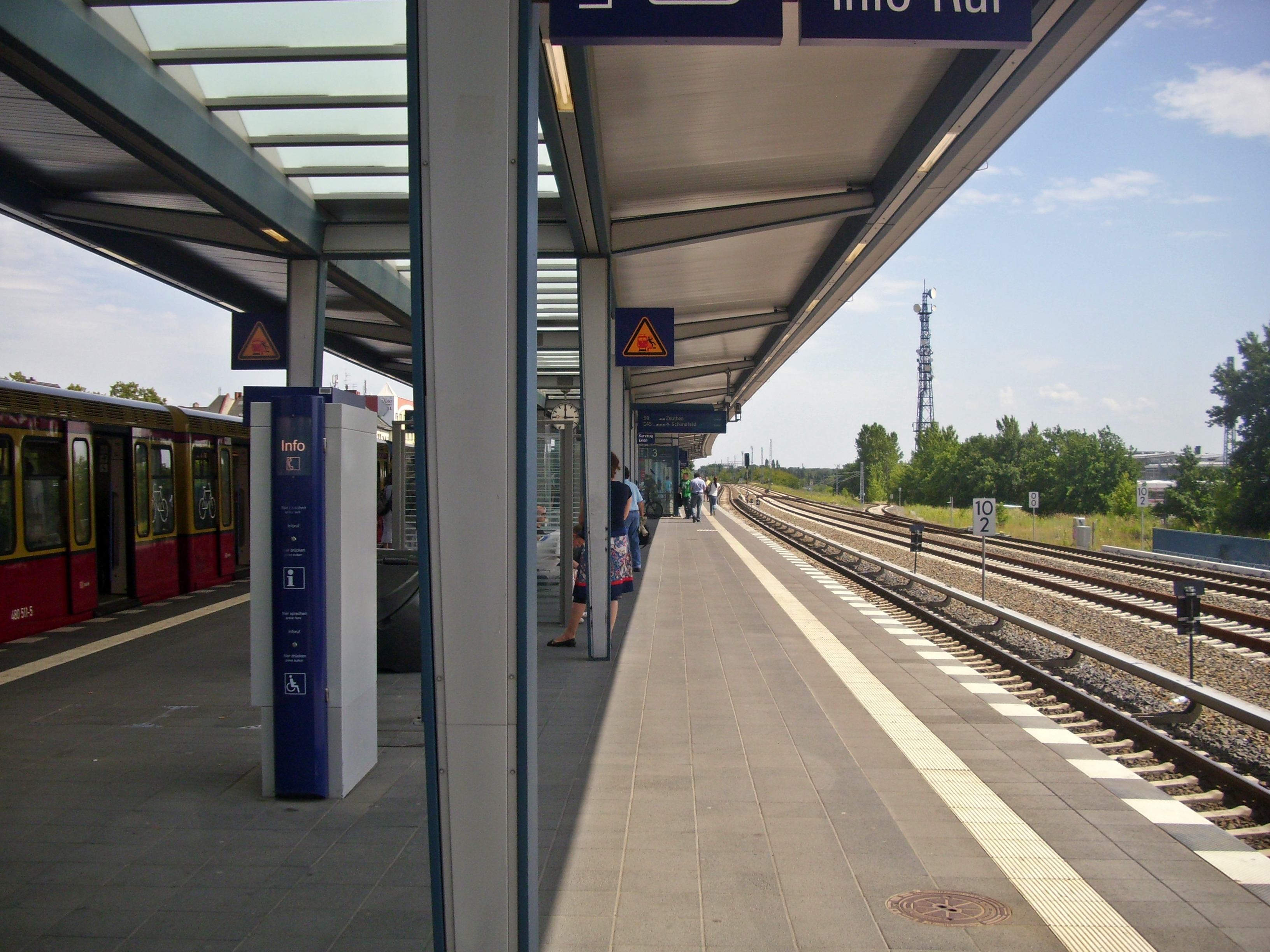 New S-Bahn station Adlershof